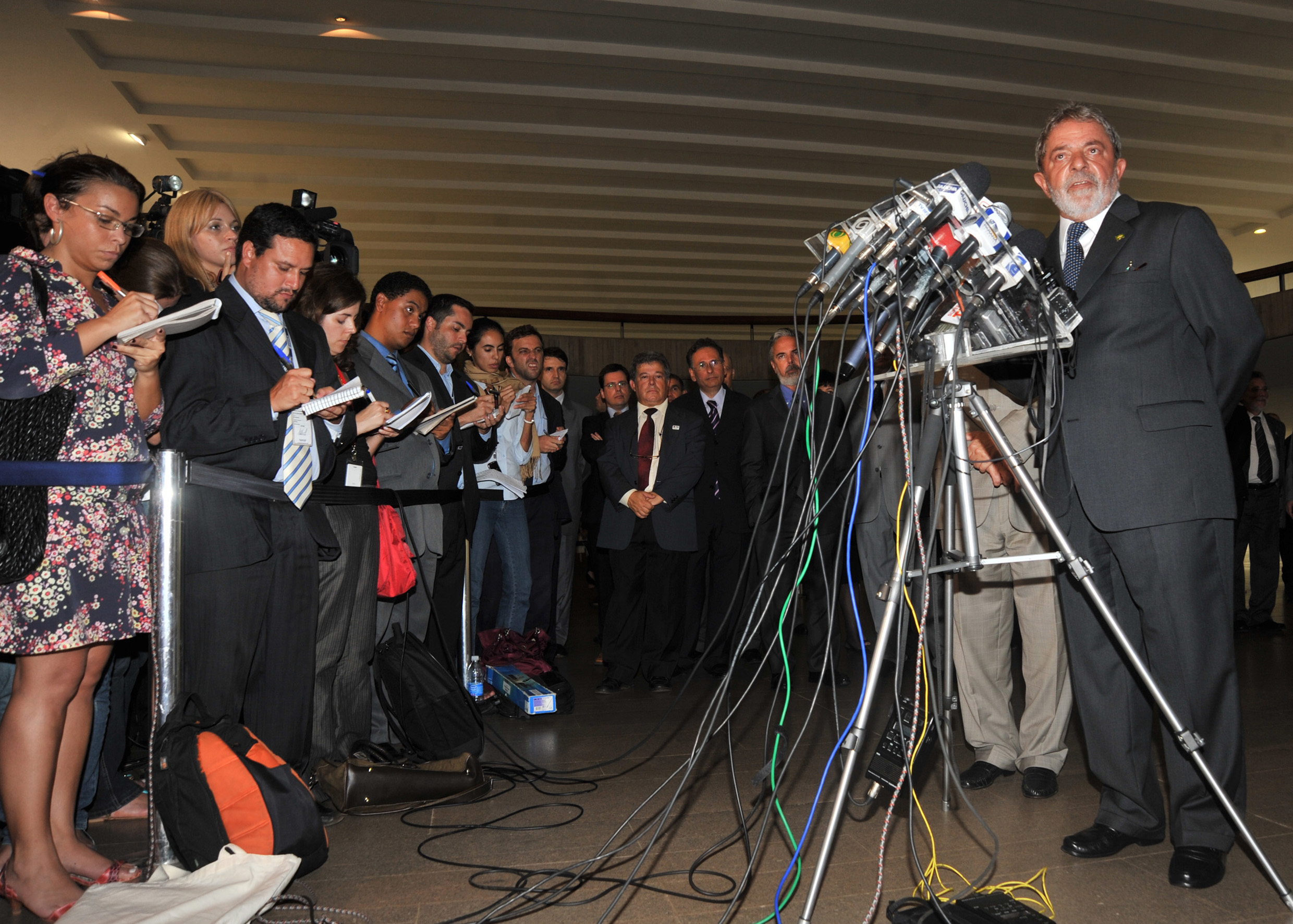 Brazilian President Lula gives an interview on the 2010 Haiti earthquake.